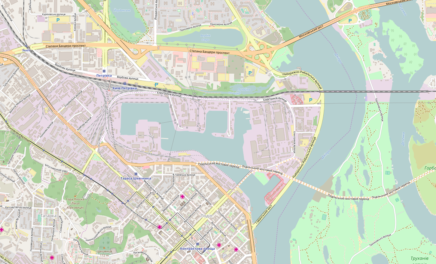 Depiction of Rybalskyi island (peninsula) and Kiev City Harbour in reference to Dnieper